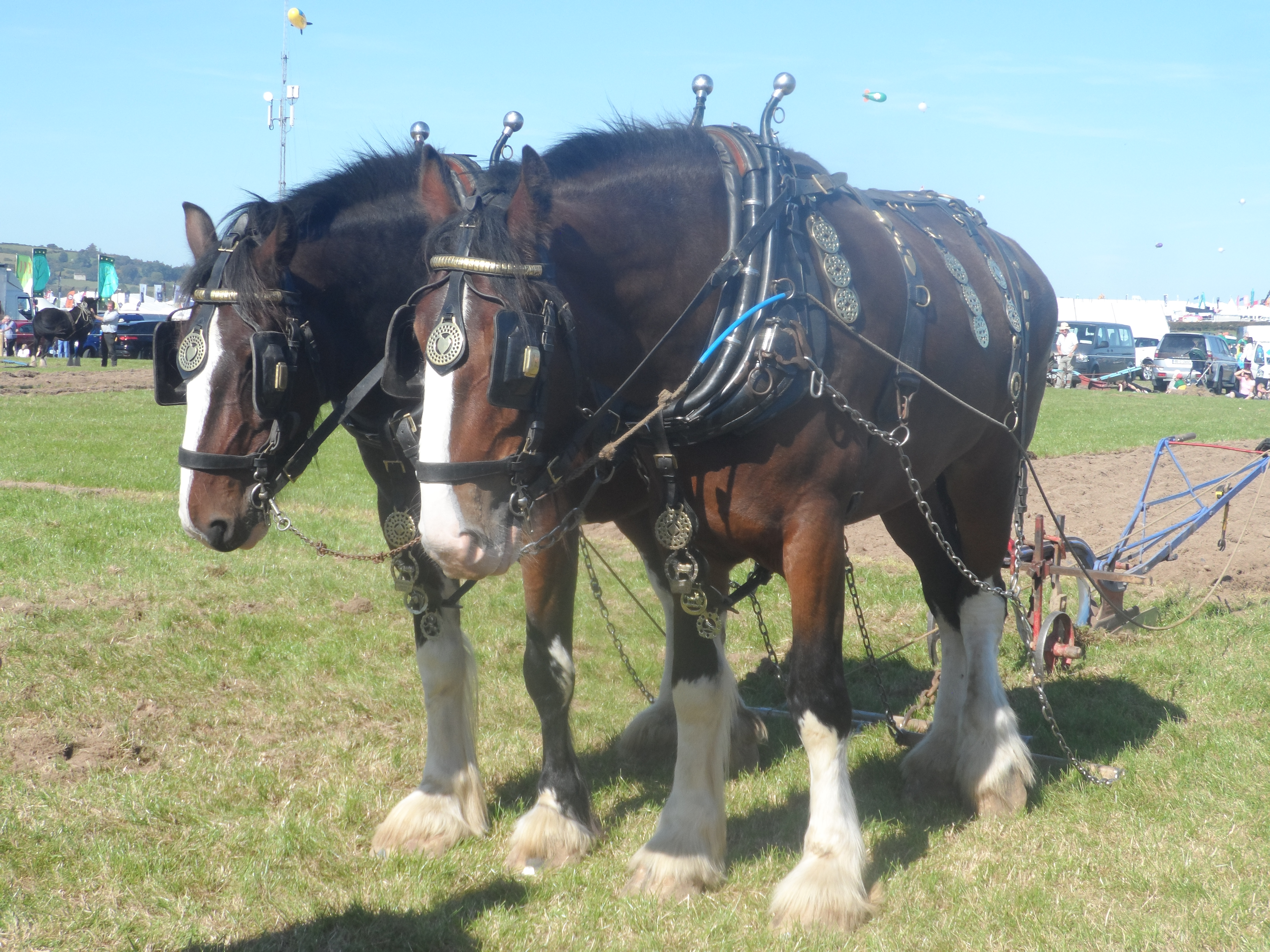 Pair of horses at plough